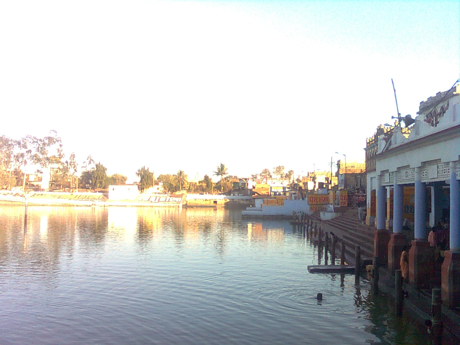 Sacred pond inside the Baidyanath Dham temple complex at Deoghar